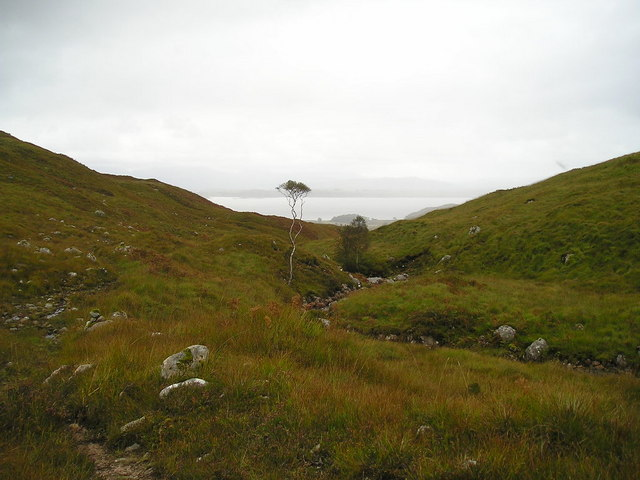 River Sanda and footpath to Ardtornish River Sanda and Ardtornish/Glensanda track with Loch Linnhe and Lismore in the background